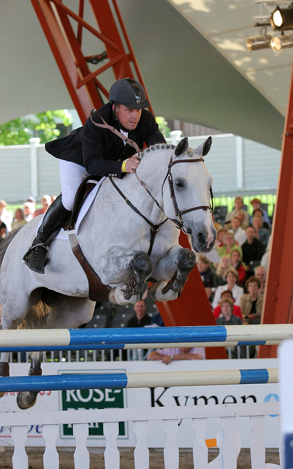 Peik Andersin and Latania Z in Hamina 2005